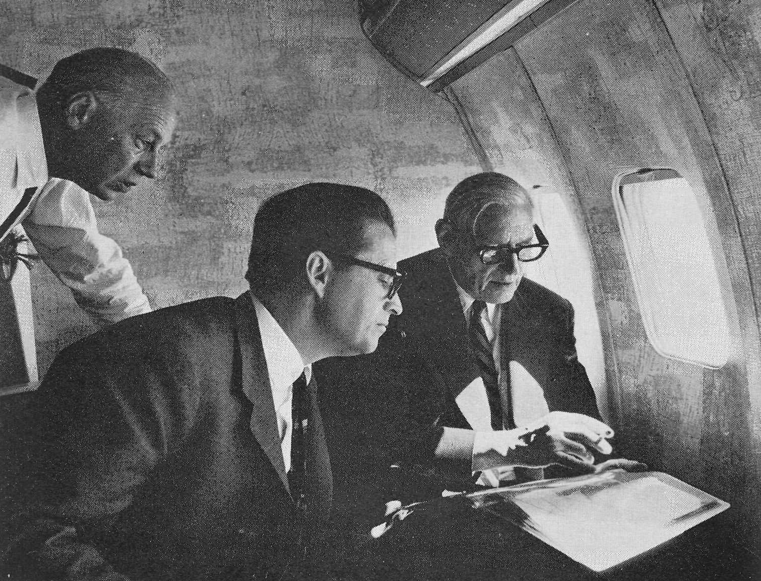 The leader of the Asea group Åke Wrethem, vice-president Curt Nicolin and banker Marcus Wallenberg in a plane over the Andes.